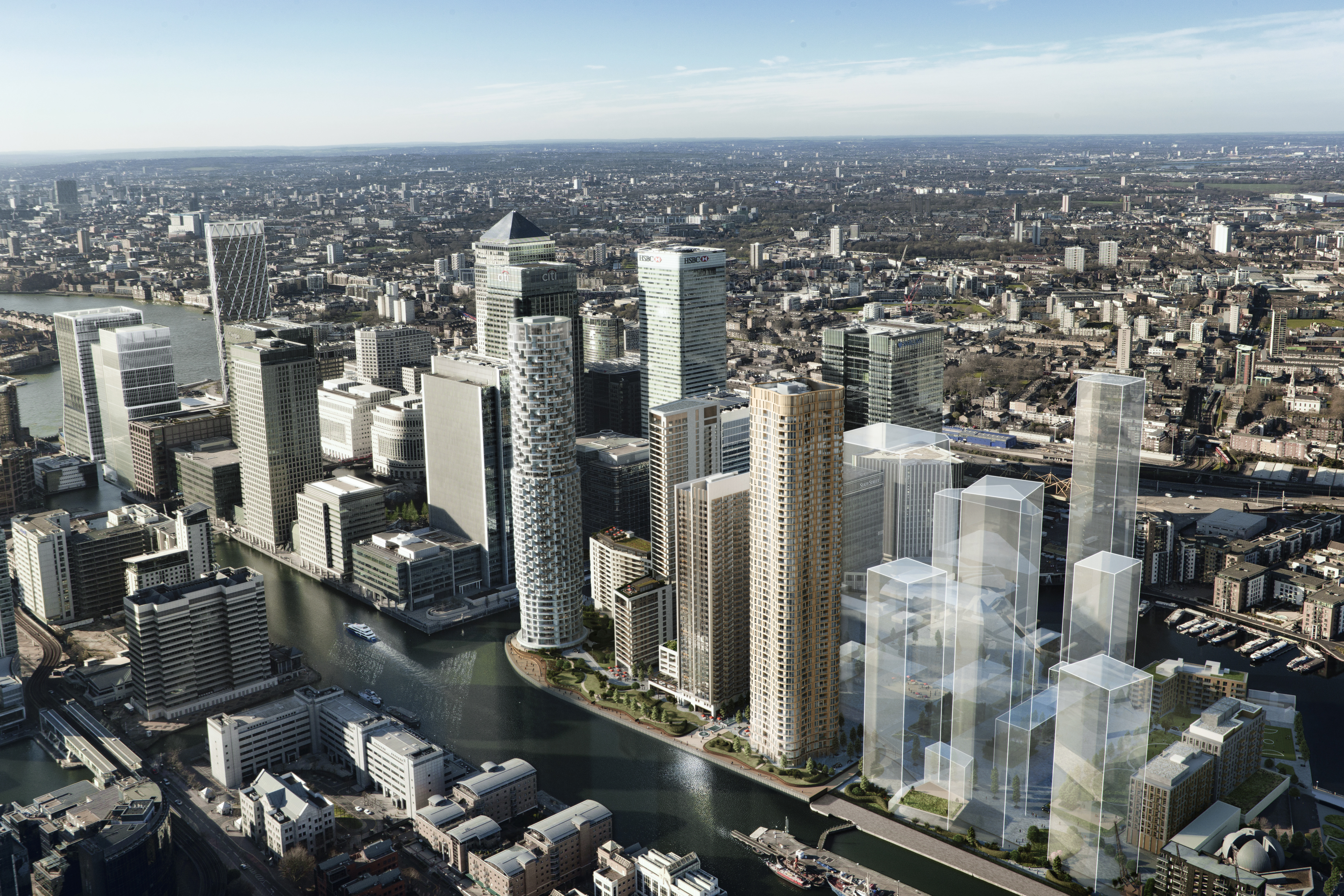 Updated picture of the Wood Wharf development in Blackwall, following various amendments to the plans.